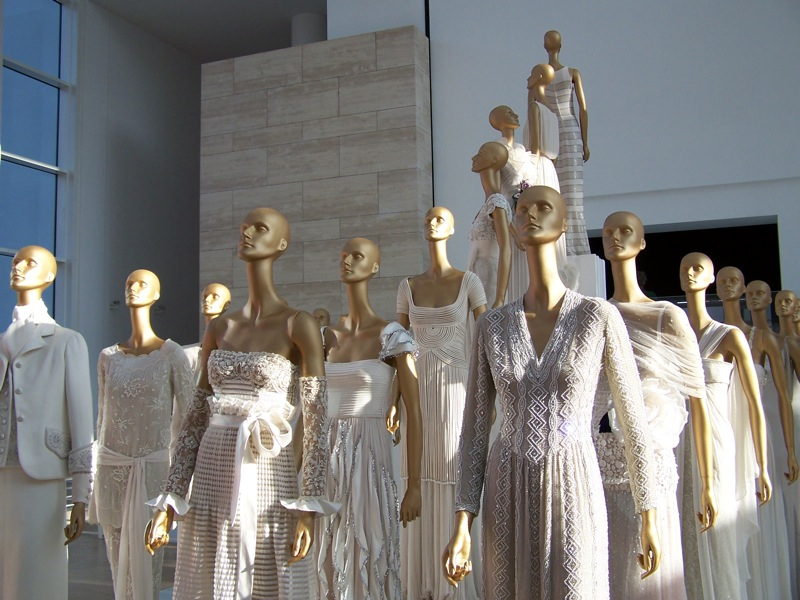 Valentino - 45 Years of Style, Ara Pacis Augustae